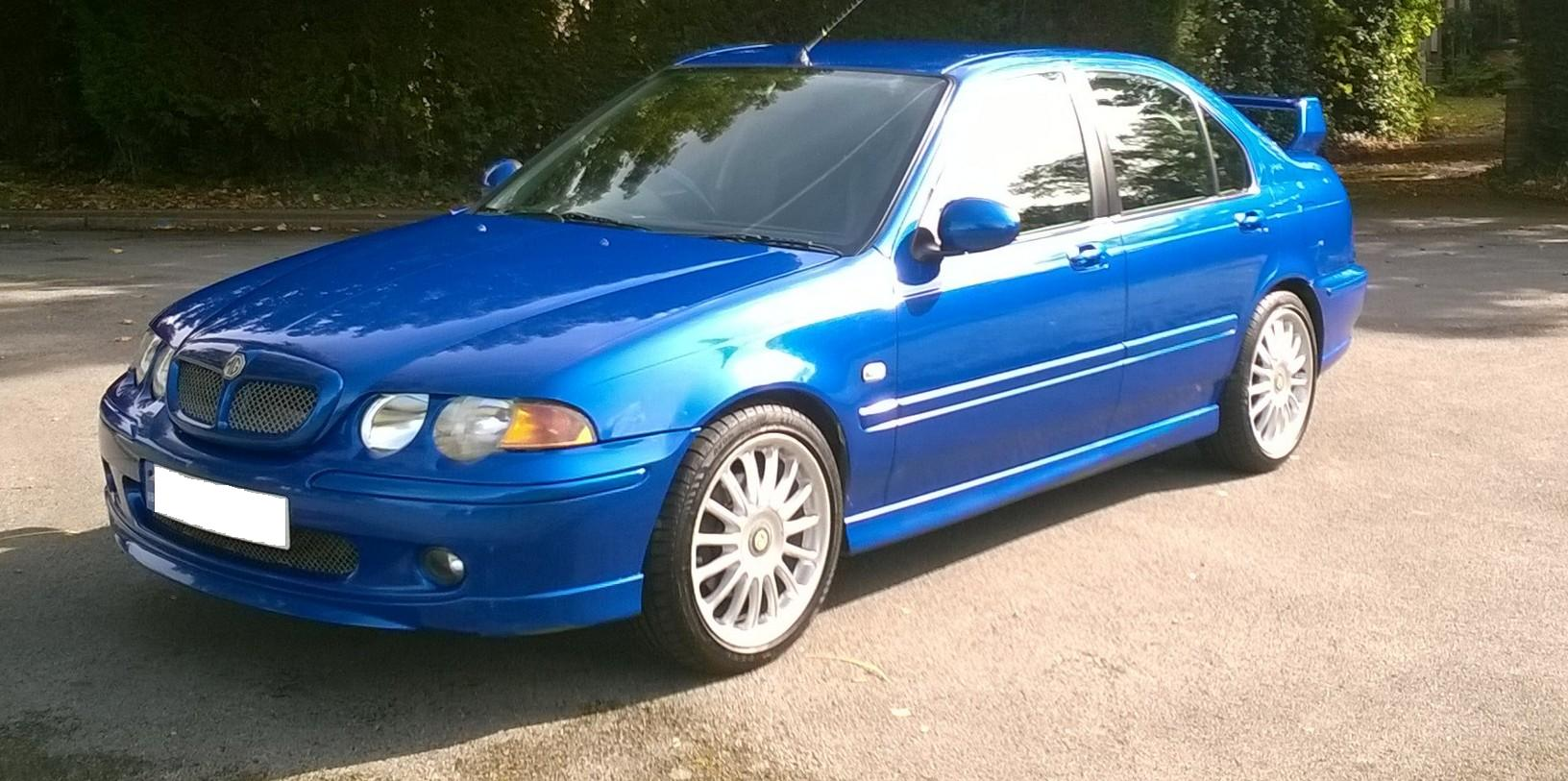 MG ZS 180